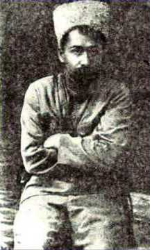 General Dro in uniform